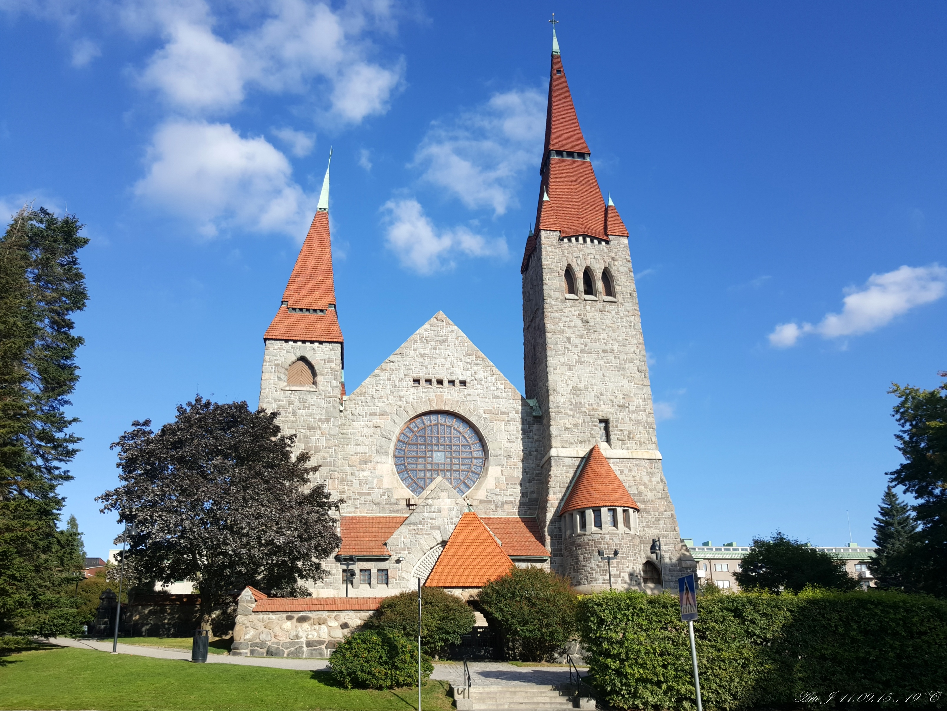 Tampere Catherdal